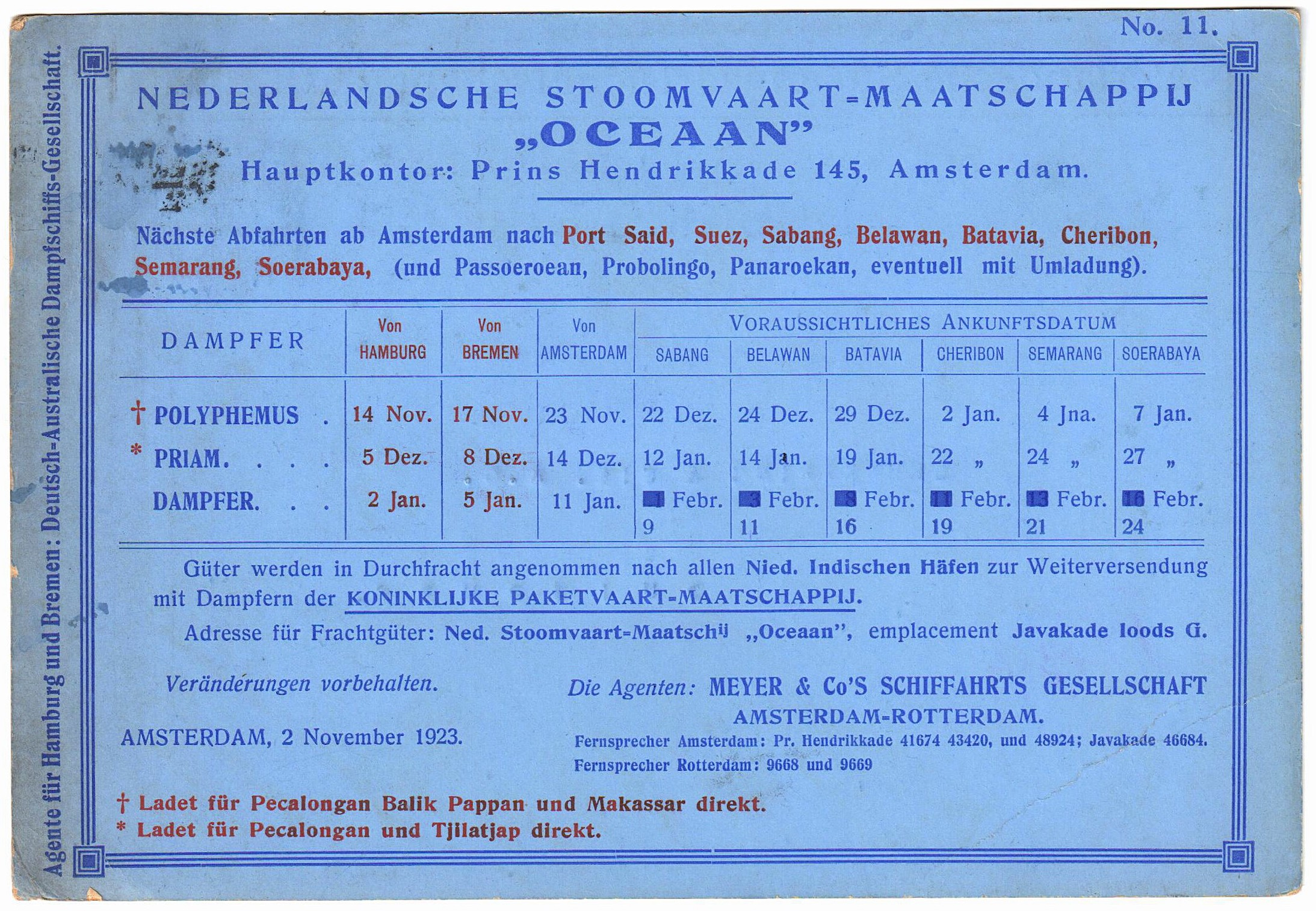 1923 printed matter sent to Lehnkering in Duisburg Germany of the Nederlandsche Stoomvaart Maatschappij Oceaan (Dutch steamship company 'Ocean'), a subsidiary of the Blue Funnel Line. Ships of the Blue Funnel fleet all had names from classical Greek legend or history. Reverse of the card a 1923-11-02 schedule in German.